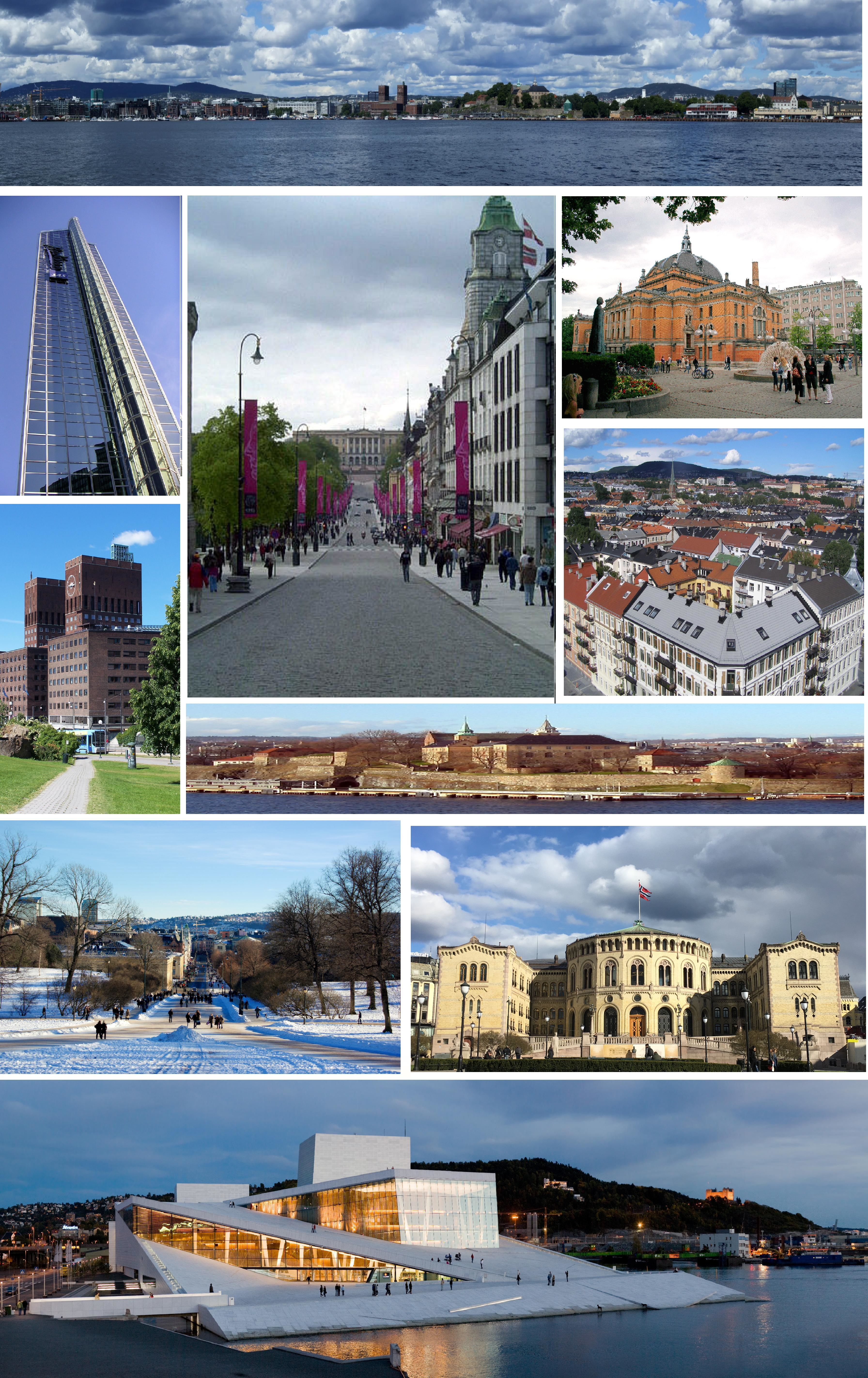 Compilation of ten images of the City of Oslo, Norway